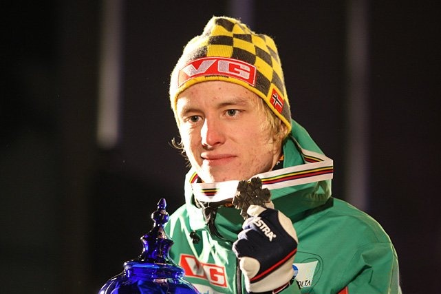 Rune Velta with silver medal of the FIS Ski-Flying World Championships 2012